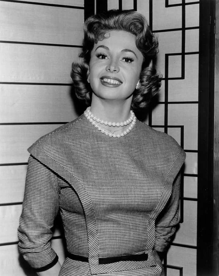 Publicity photo of Audrey Meadows